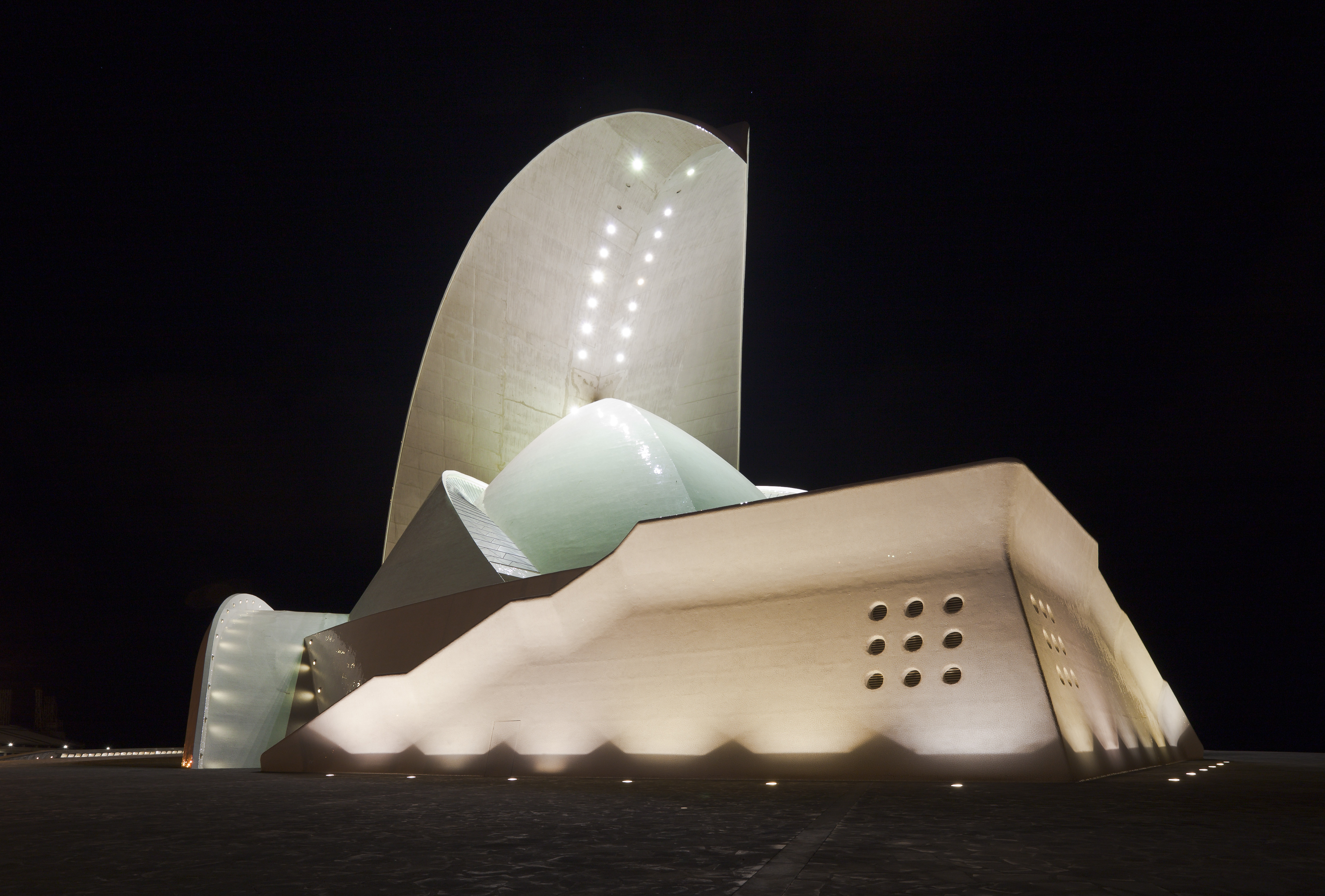 Auditorium of Tenerife, Santa Cruz de Tenerife, Spain